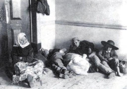 Portuguese immigrants to Brazil in the early 20th century